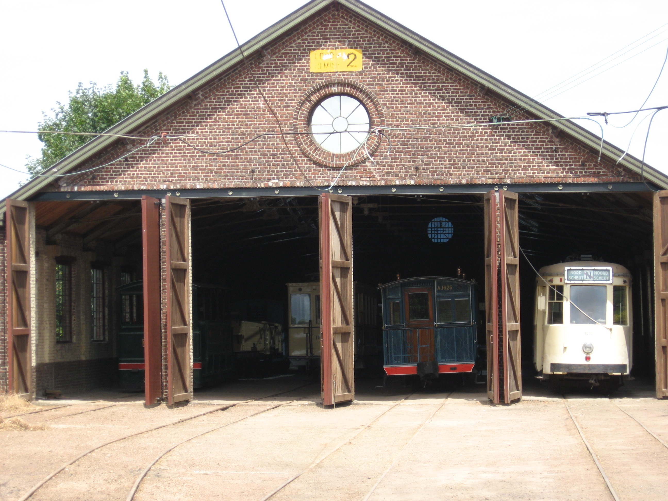 View in the trammuseum Schepdaal. Was a original SNCV workplace. In the building with open doors there is an exposition.